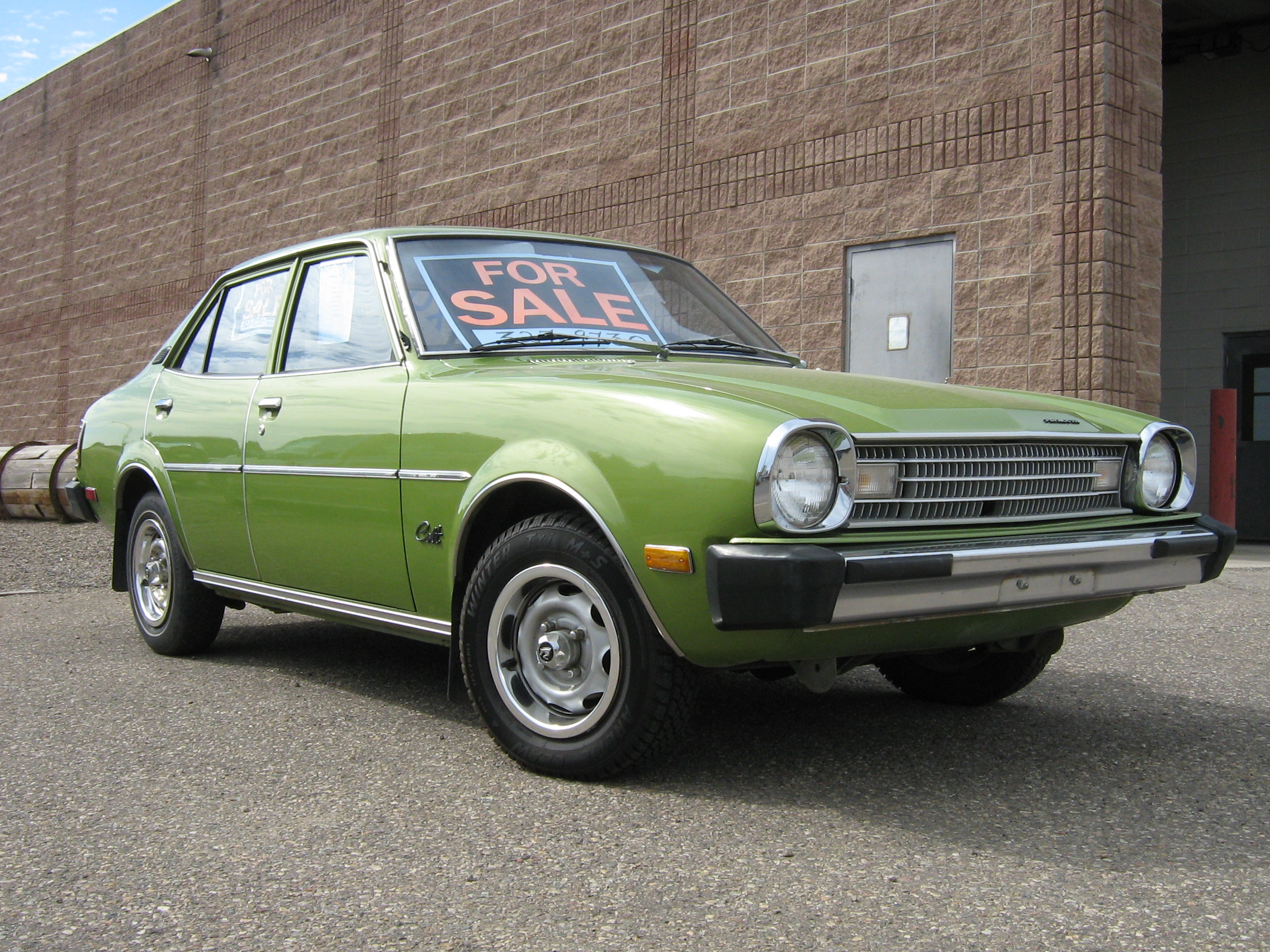 1978 Plymouth Colt - version of the Mitsubishi Lancer / Dodge Colt. This one was for sale. The sign said it was a one owner with only 82k kms - certainly looked mint.